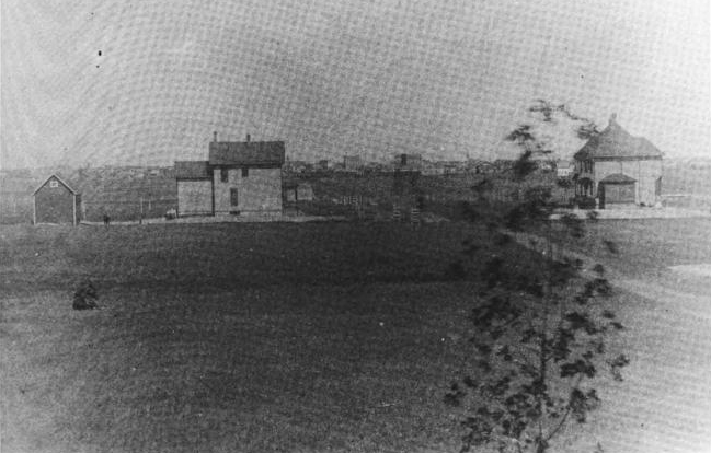 "Aberdeen, South Dakota, at twilight, photographed by L. Frank Baum, 1888"